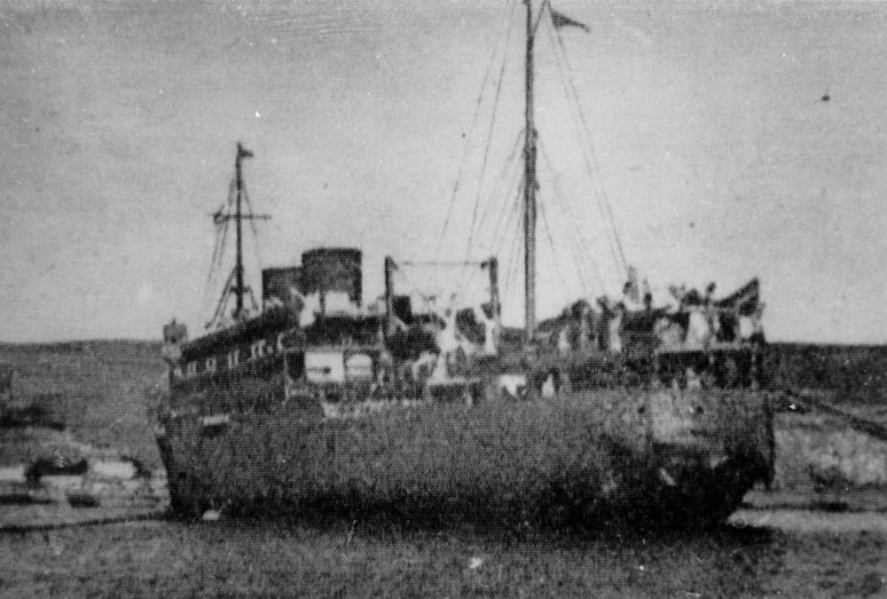 MV Llangibby Castle The ship weighed 11, 951 tons. At the outbreak of World War Two the 'Llangibby Castle' was taken over for war service. In 1942 it left England with orders to join a large convoy bound for Singapore. On the fourth day, in heavy seas, the ship was struck by a torpedo which smashed the stern and left it rudderless. As the engine and propellers were undamaged, Captain R. F. Bayer made for a port that was 700 miles away. (Description supplied with photograph).